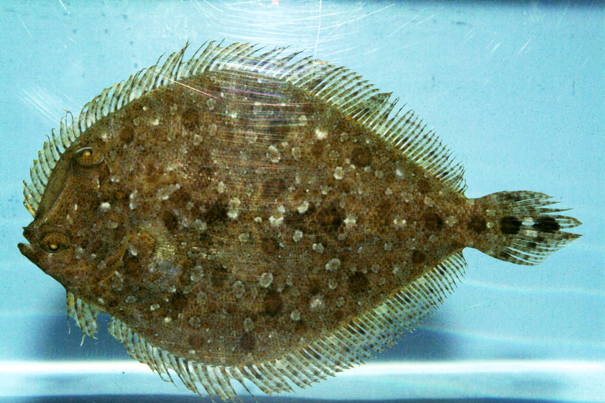 Twospot flounder ( Bothus robinsi ). Gulf of Mexico.